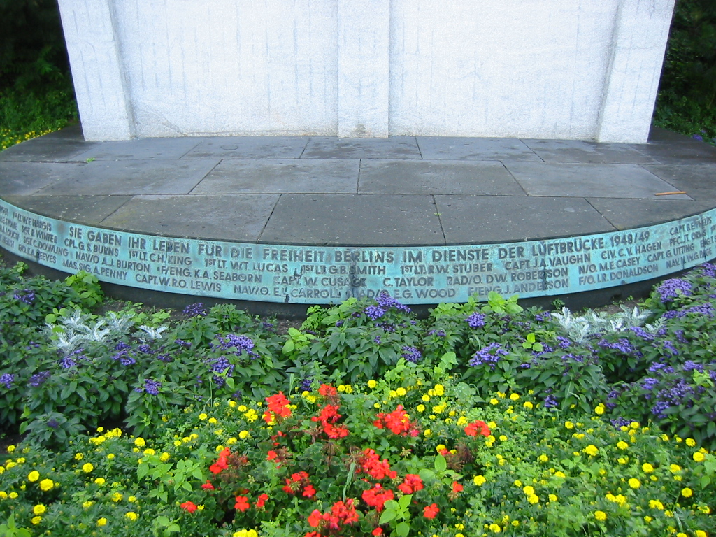 Photographer: Matthias Wagner, Fürth, Germany Date: 30th June 2005 Berlin Airlift Monument in Berlin-Tempelhof with inscription "Sie gaben ihr Leben für die Freiheit Berlins im Dienste der Luftbrücke 1948/49" "They lost their lives for the freedom of Berlin in service for the Berlin Airlift 1948/49"